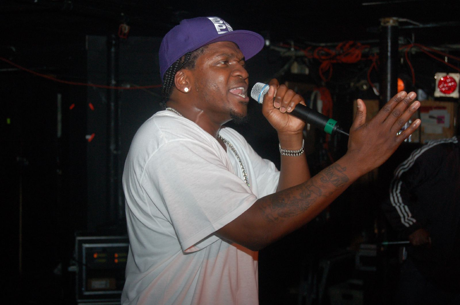 Pusha T at The Middle East nightclub in Cambridge, Massachusetts.